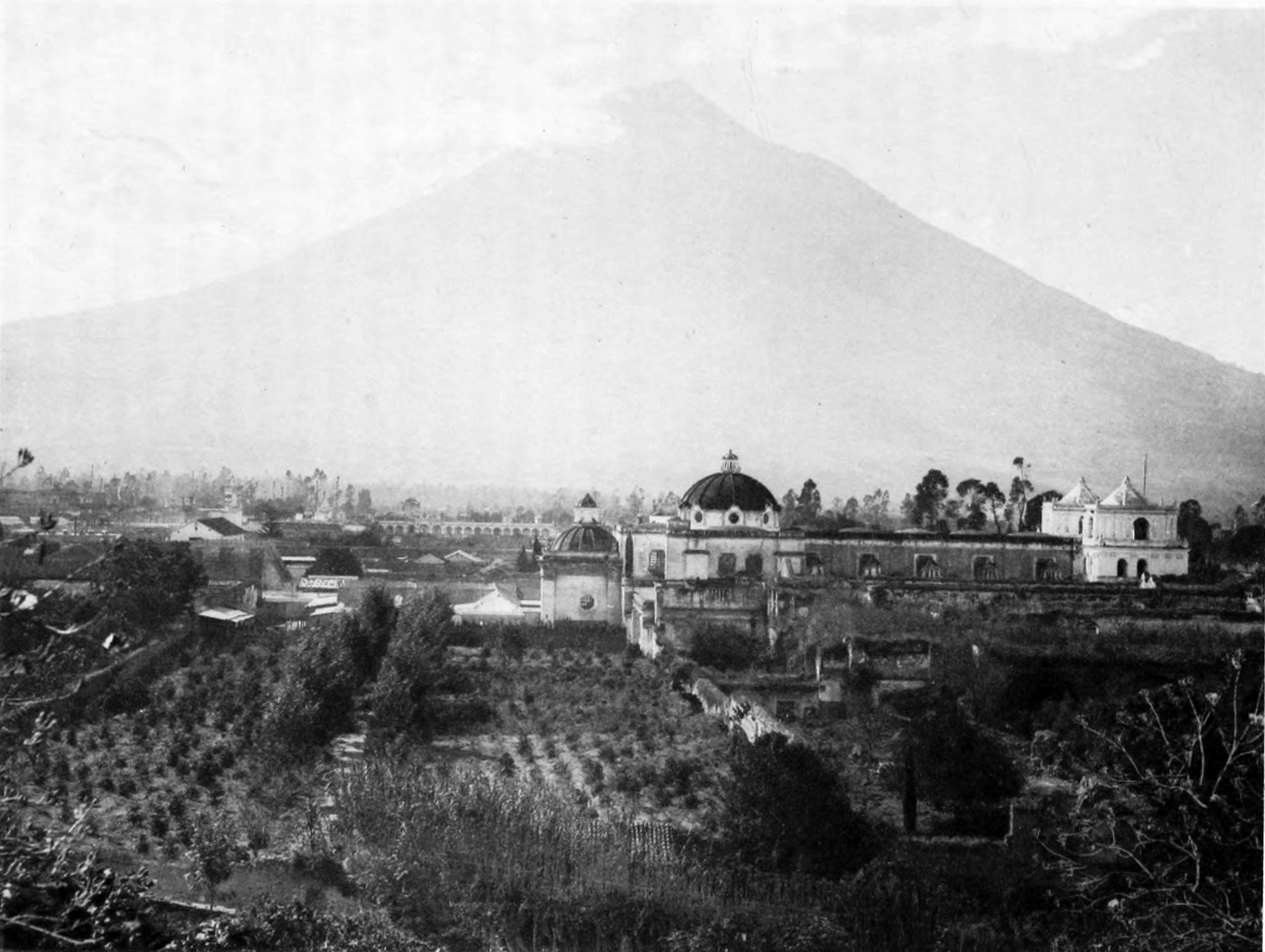 Picture of Antigua Guatemala in 1898